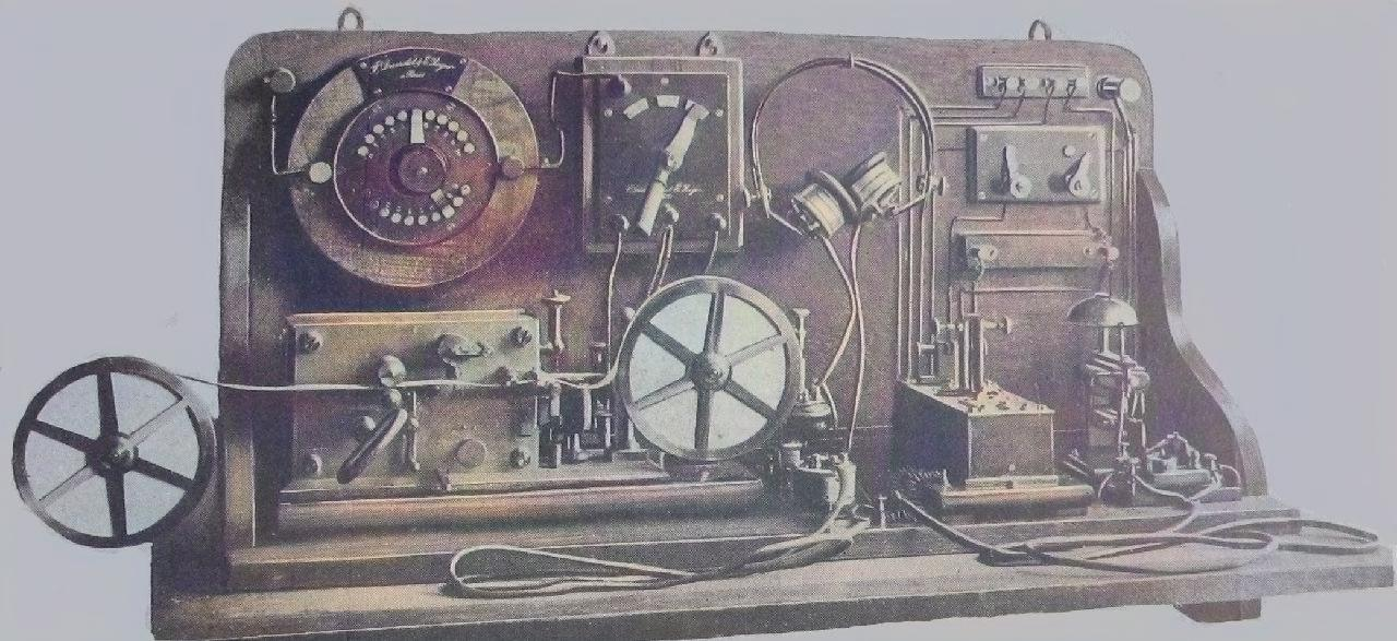 An early wireless telegraphy radio receiver using a coherer, which printed out the Morse code received on a Morse paper tape machine.